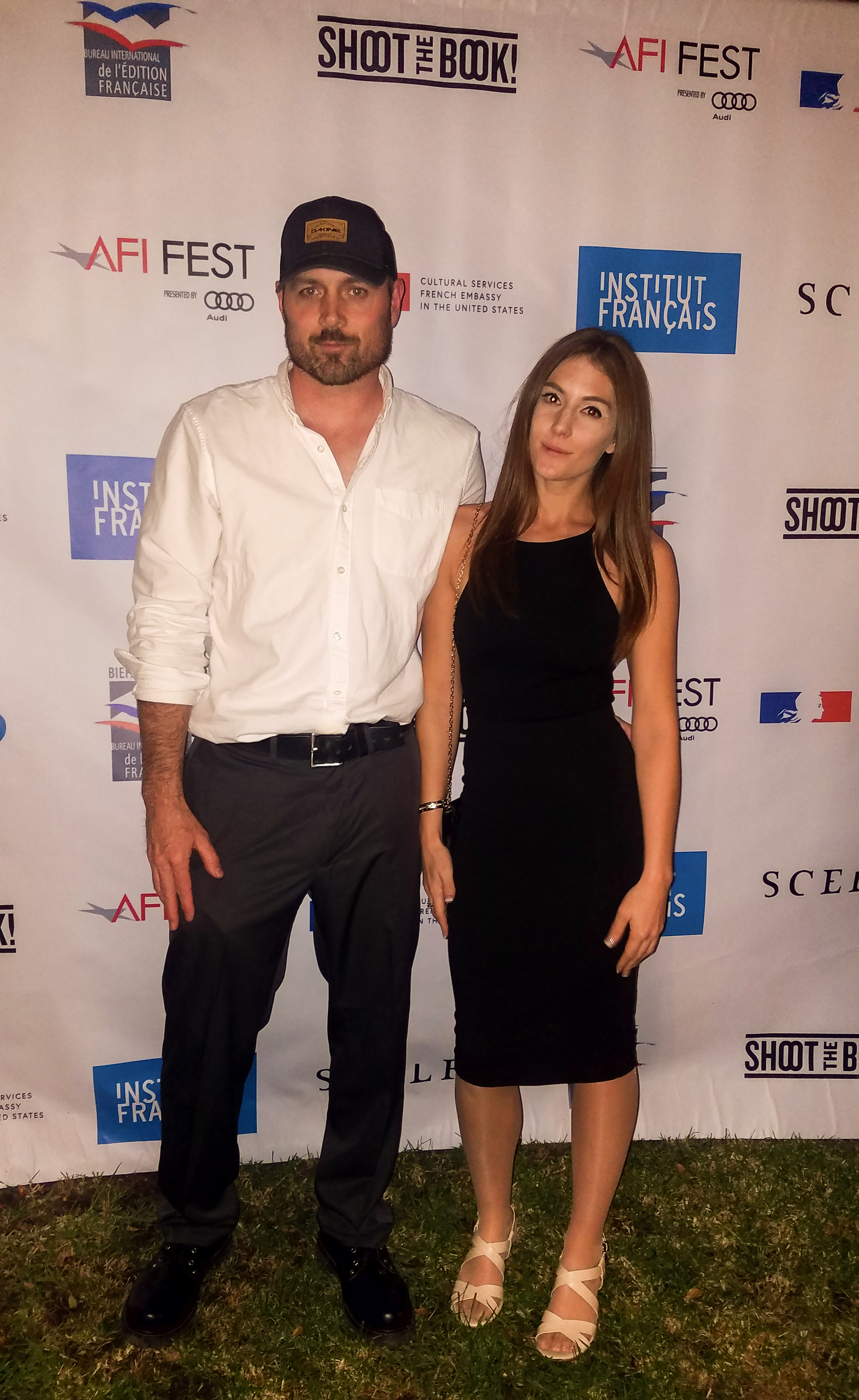 image from party in LA.